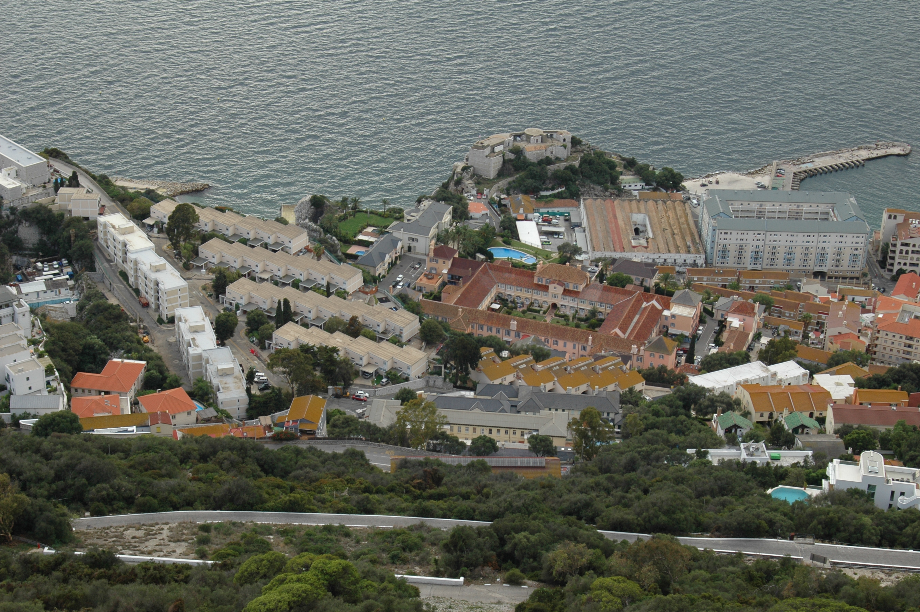 View from Spur Battery, Gibraltar